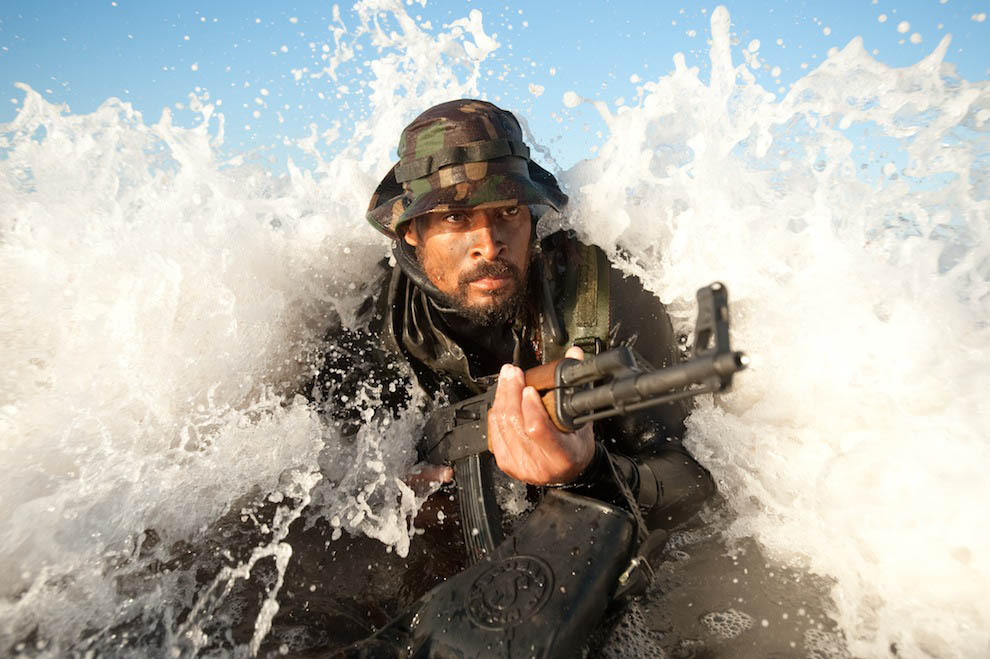 A Seal with an AK-47 coming out of water